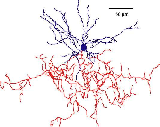 Reconstruction of a biocytin-filled chandelier cell from a mouse neocortical brain slice. Soma and dendrites labeled in blue, axon arbor in red. Chandelier cells have characteristic terminal portions of their axon, which form short vertical rows of boutons resembling candlesticks. Each candlestick innervates a single axon initial segment of a pyramidal cell. PLoS Biol. 2008 September; 6(9): e243. Published online 2008 September 23.